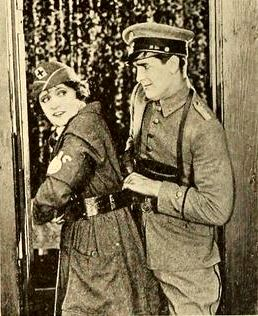 Still for the American film Shades of Shakespeare (1919) with Alice Lake and Earle Rodney, page 1250 of the August 9, 1919 Motion Picture News.